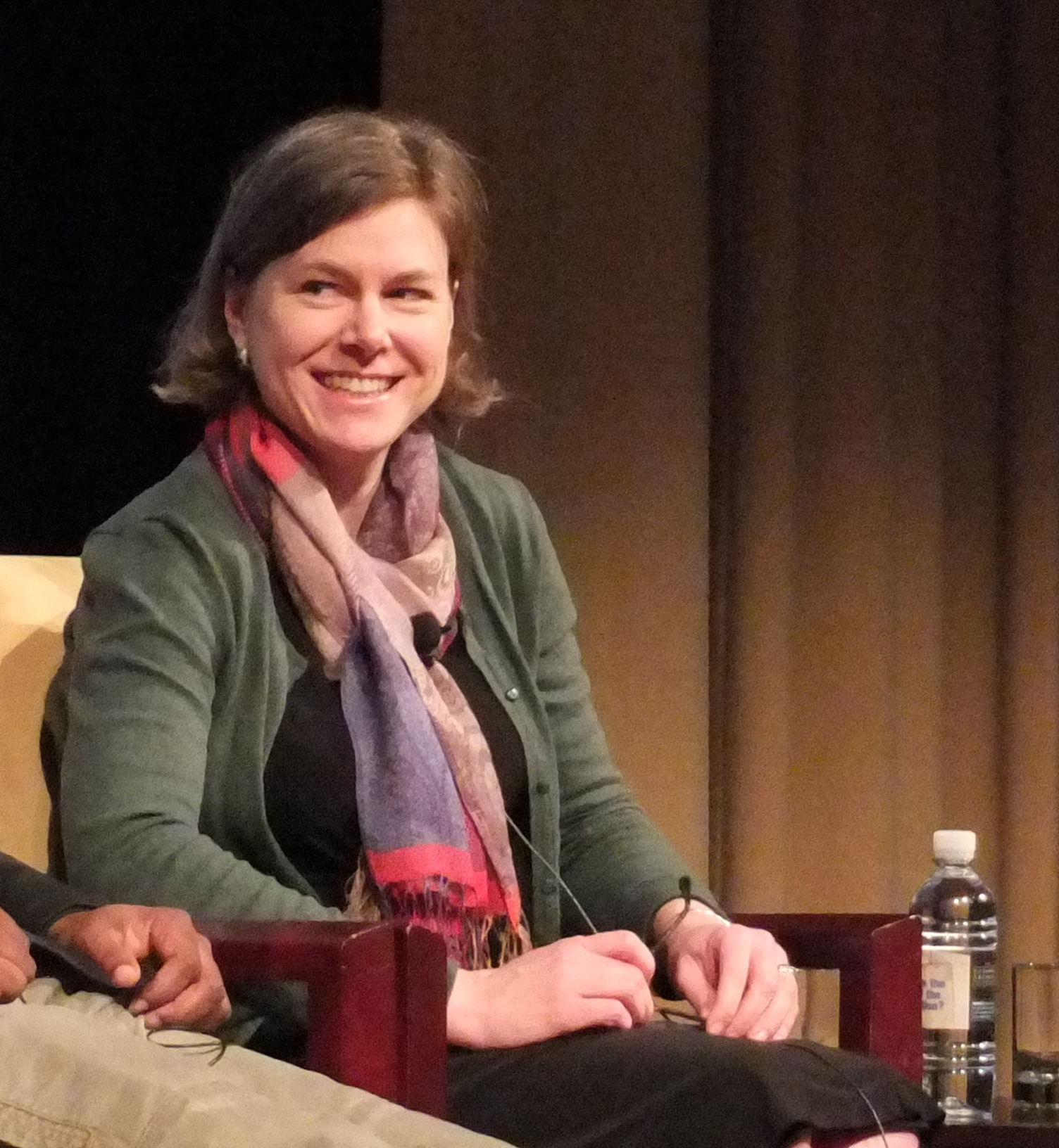 Jen Sorensen at National Archives' 11th Annual McGowan Forum on Communications -- "Drawn from the Headlines: Communication and Political Cartoons" -- panel discussion, 2015. Photographer: Bruce Guthrie